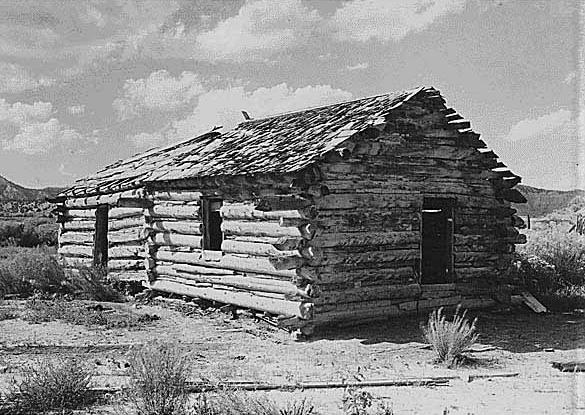 Ebenezer Bryce's cabin in Bryce Canyon. Early home of Ebenezer Bryce. Two miles south of Tropic, Utah and on the east side of the Pahreah River. The house stands on property subsequently owned by Hatch, now owned by Shakespeare. Bryce lived here from 1875 until 1881; buried in Bryce in 1913.